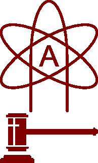 red atheism symbol and gavel, transparent background